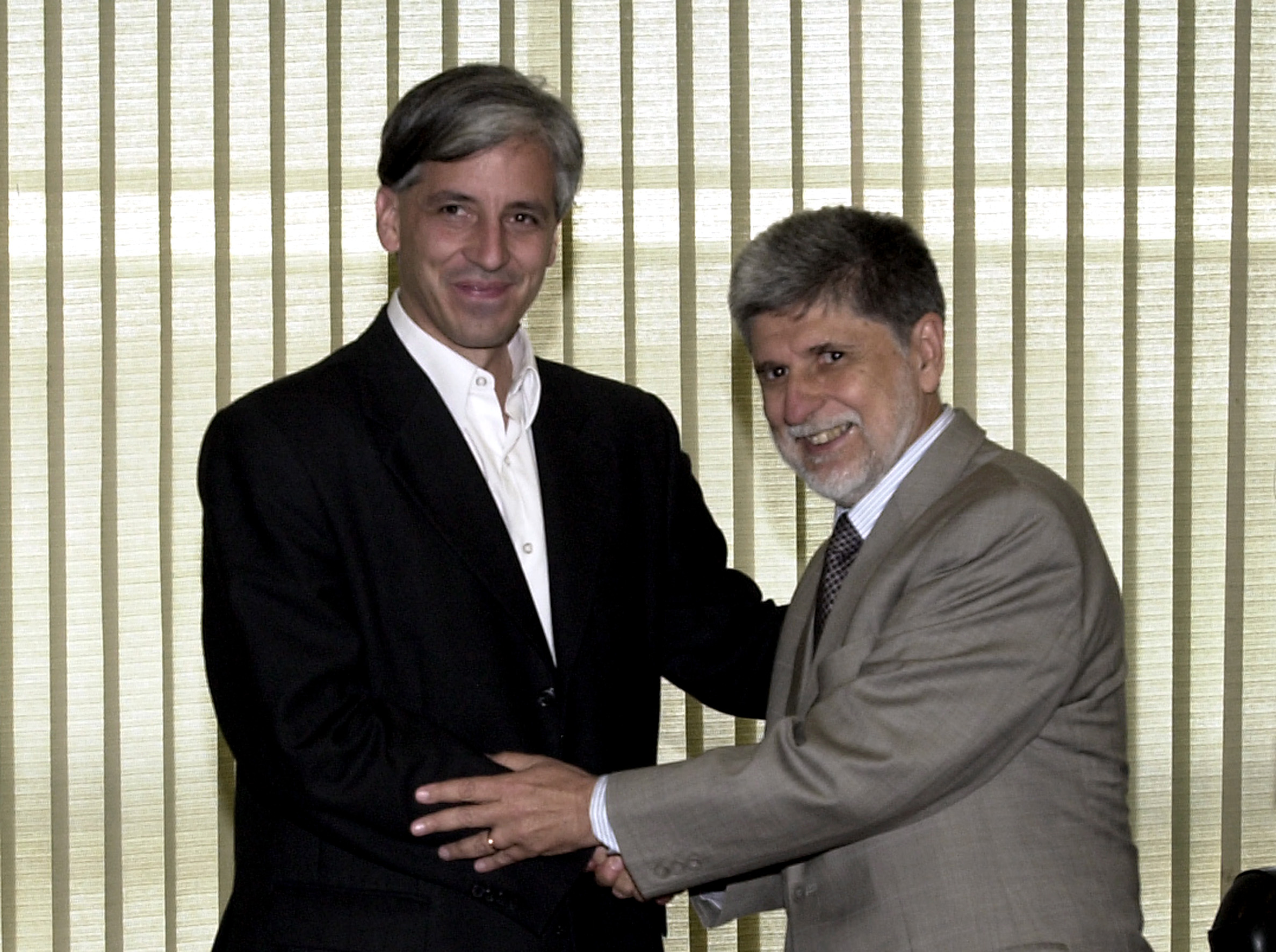 Brazil foreign office minister, Celso Amorim, receives bolivian vice-president Álvaro García Linera to discuss about the natural gas supply conditions for brazilian company Petrobras.